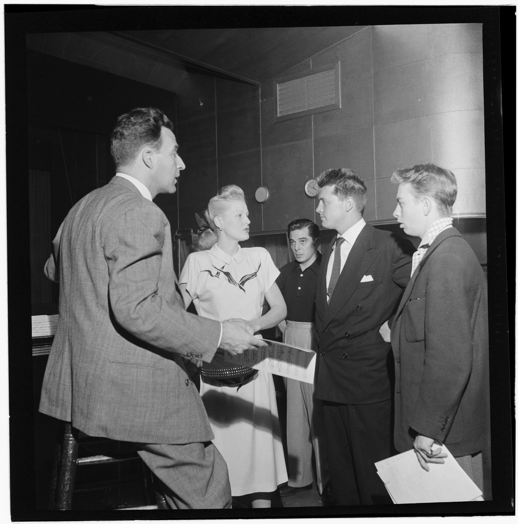 Jerry Wald, Gordon MacRae, Mel Tormé, Marion Hutton, and Jerry Jerome, Saturday Teentimers Show, New York, N.Y.